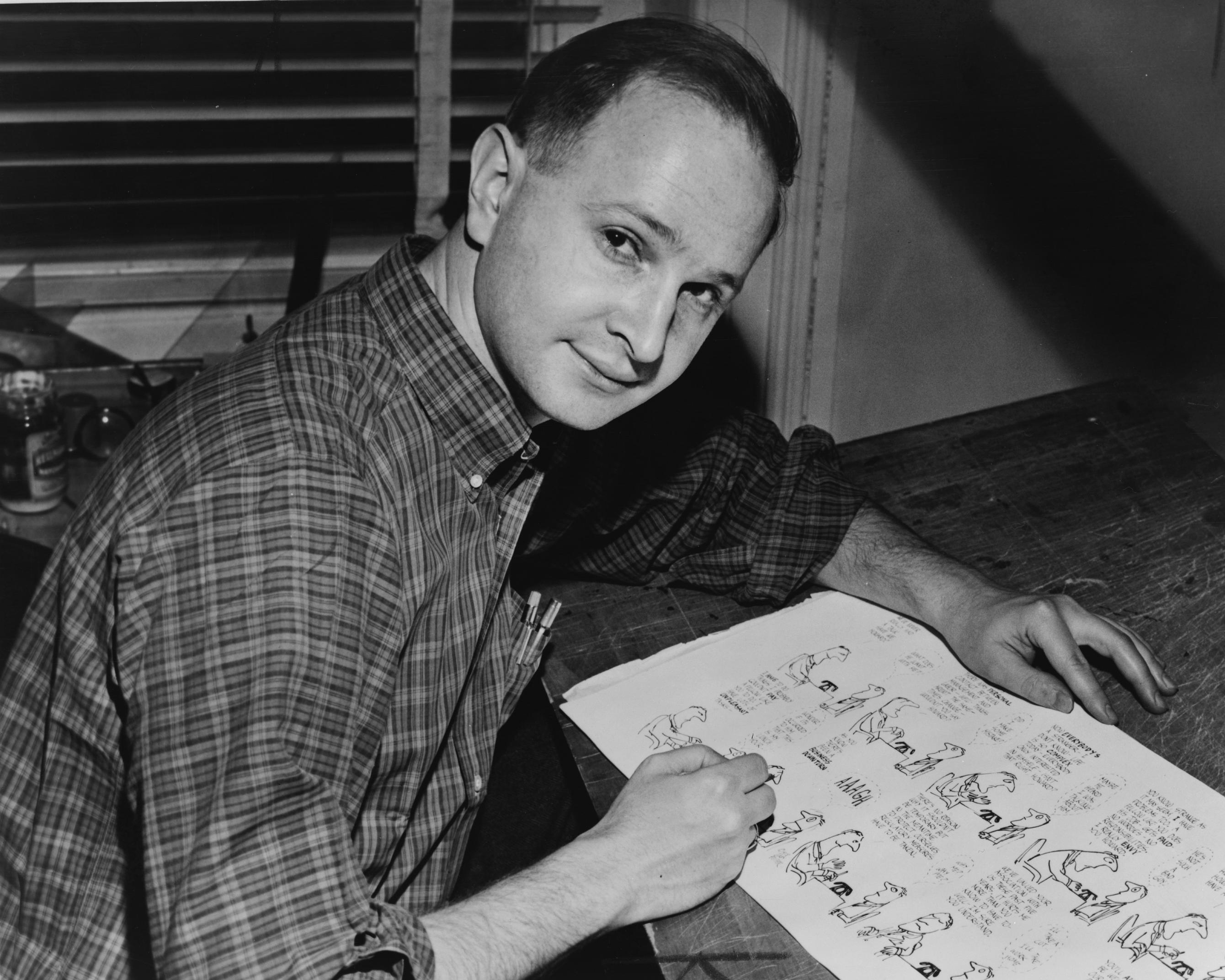 Jules Feiffer (born January 26, 1929) is an American syndicated comic-strip cartoonist and author. In 1986 he won the Pulitzer Prize for his editorial cartooning in The Village Voice, and in 2004 was inducted into the Comic Book Hall of Fame.